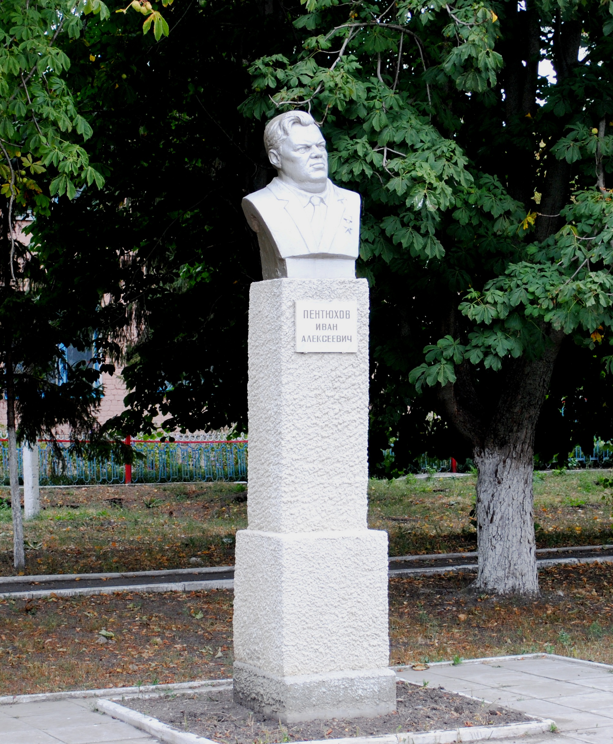 Sergievskoe in Livny